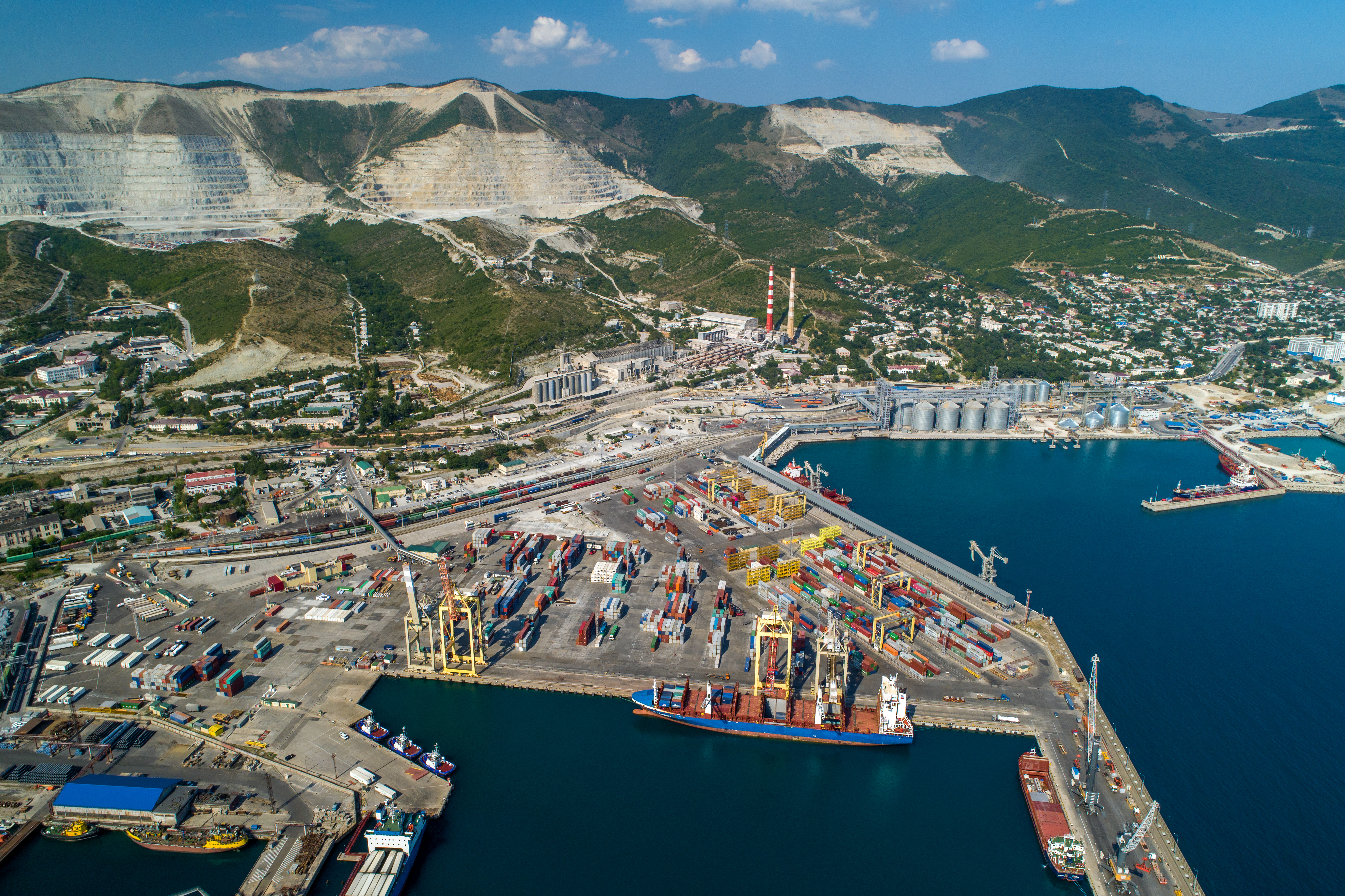 NUTEP and KSK terminals